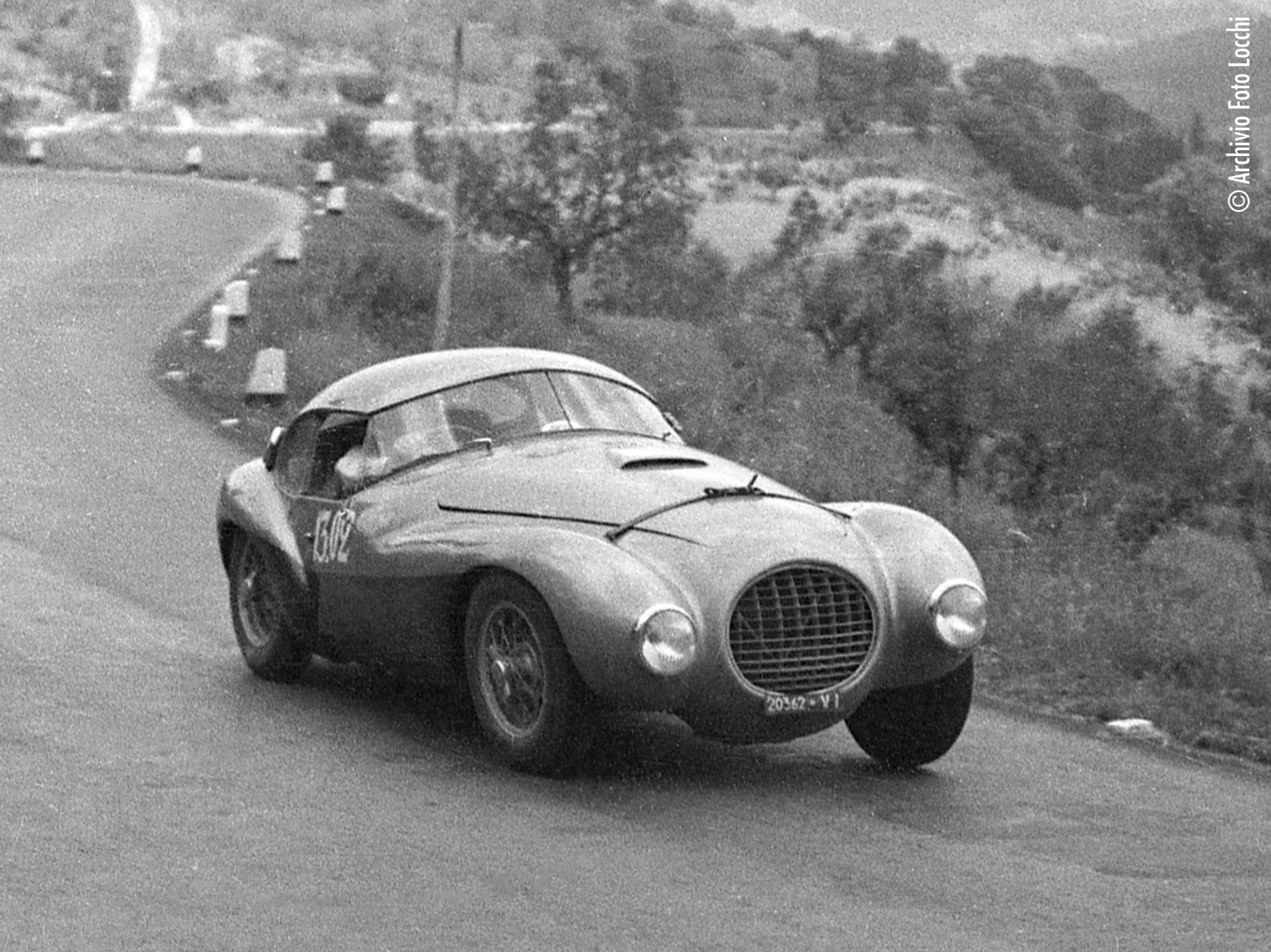 Giannino Marzotto and Marco Crosara win the III Coppa Toscana on 3 June in the "Uovo" Ferrari. This is the 1950 Ferrari 166 MM Touring Barchetta (Uovo) s/n 0024MB.[1] They had entry #13.02 meaning they started at 13 hr 02 minutes?